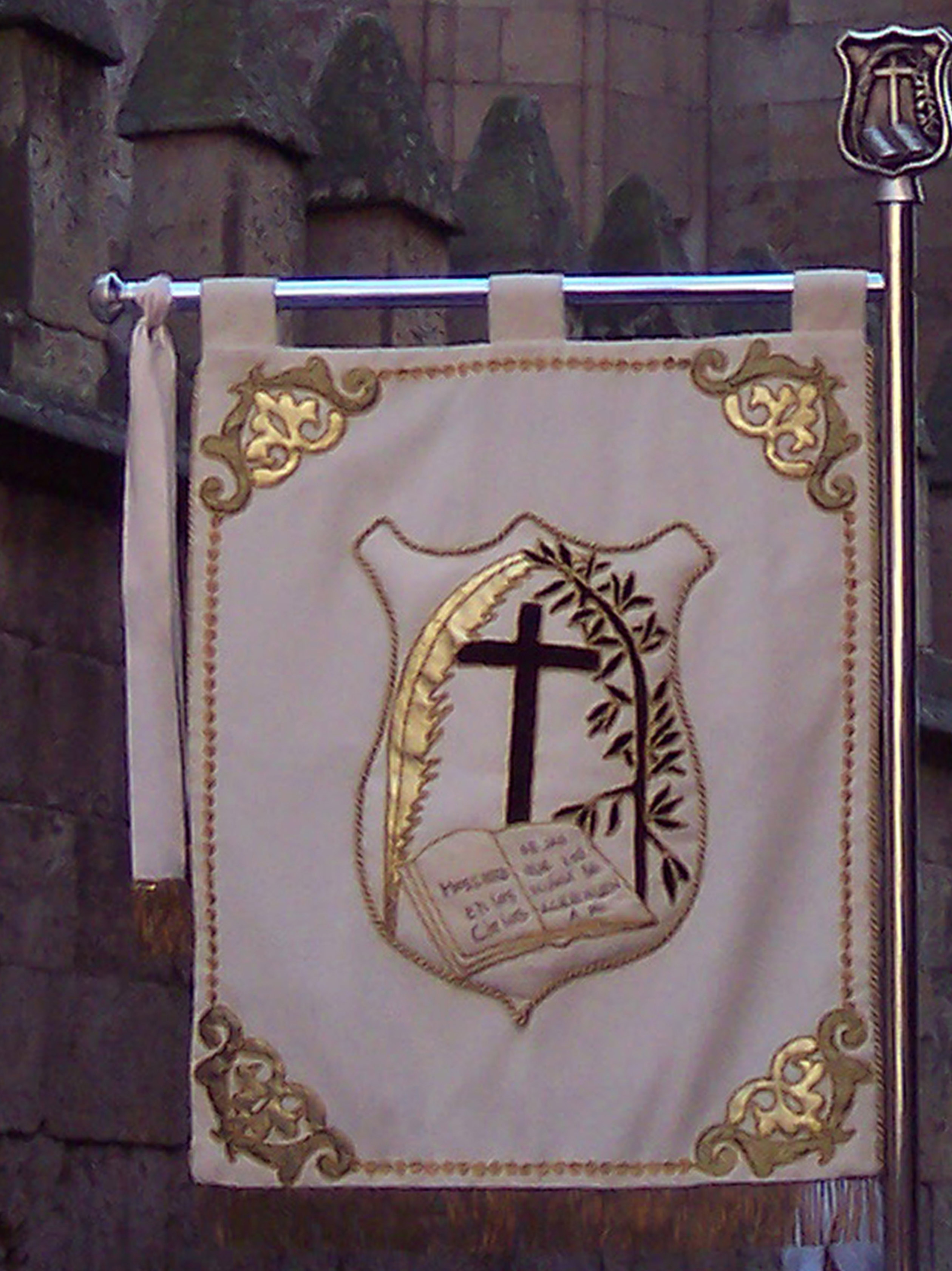 Standard of the Brotherhood of Jesus Friend of Children, Salamanca, Spain